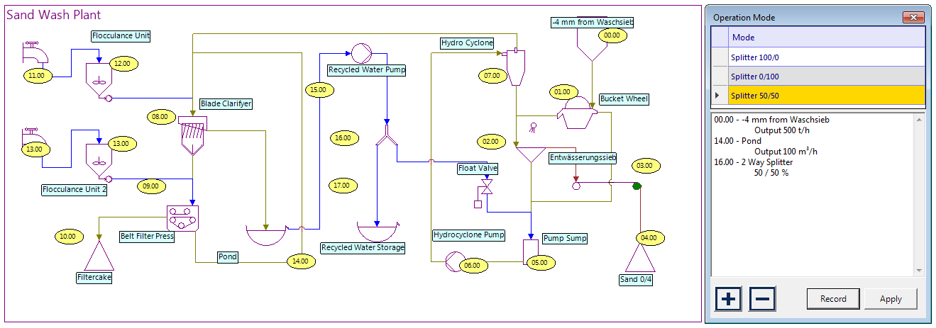 This image shows the operation mode feature of the software NIAflow by Haver and Boecker.